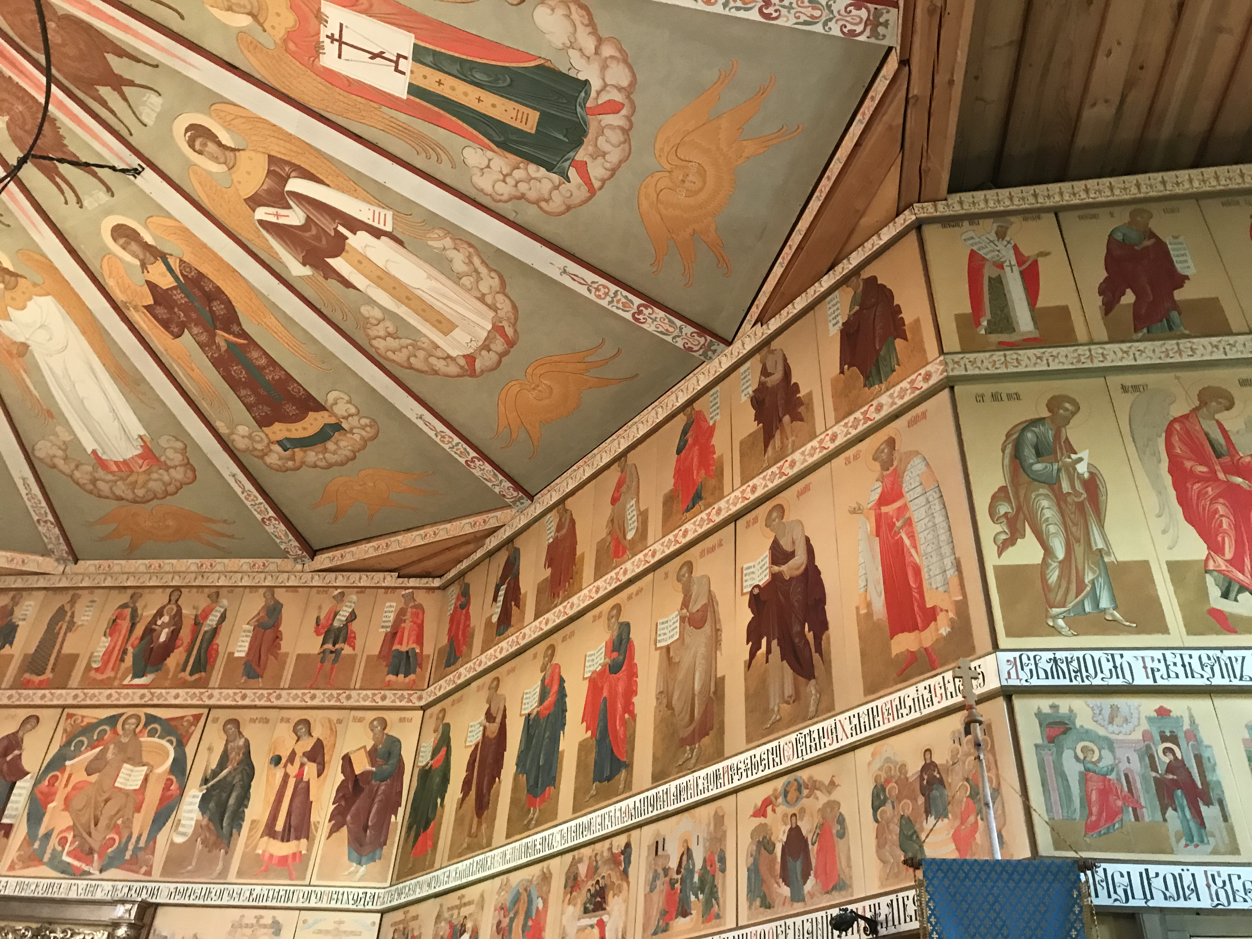 Pokrovskaya church in «Bohoslovka Estate» park complex. Wikimeetup in Vsevolozhsky District 2020-07-26.